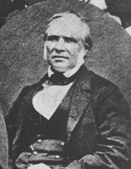 Cropped from a montage of MPs to show Archibald Clark.